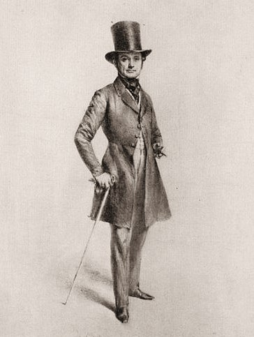 The painter Eduard Magnus, pencil drawing (1841) by Adolph Menzel